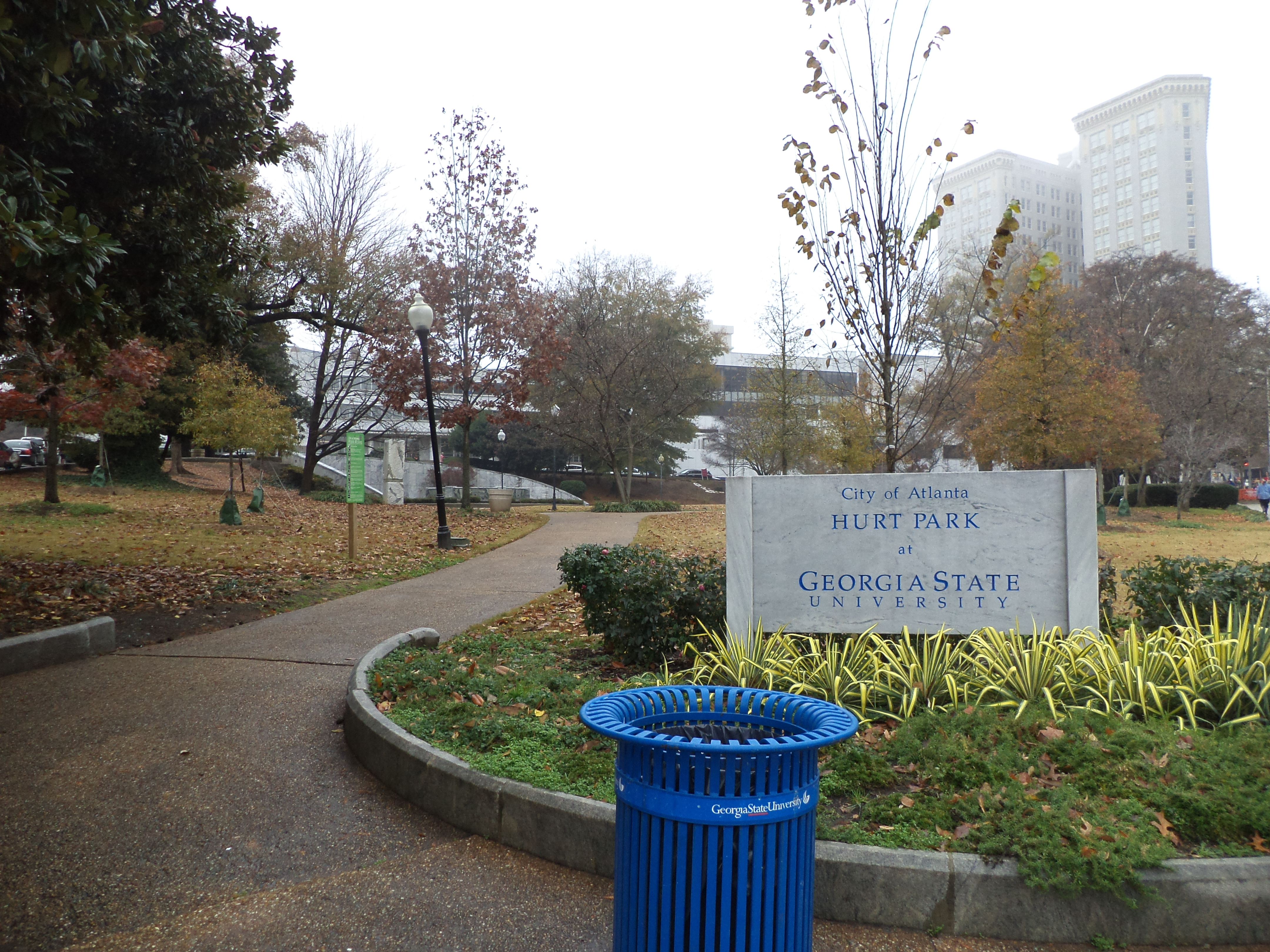 Hurt Park (with Hurt Building in view), Georgia State University, Atlanta, Fulton County, Georgia